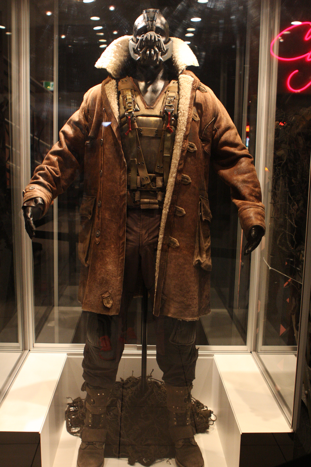 Mannequin of Batman's antagonist Bane at The Dark Knight Rises premiere in Sydney.